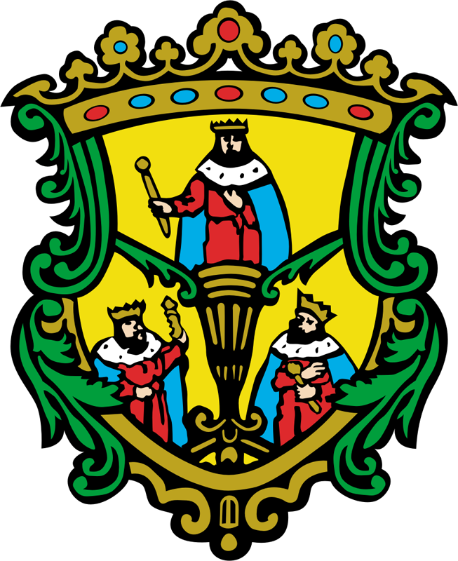 Morelia's Coat of arms